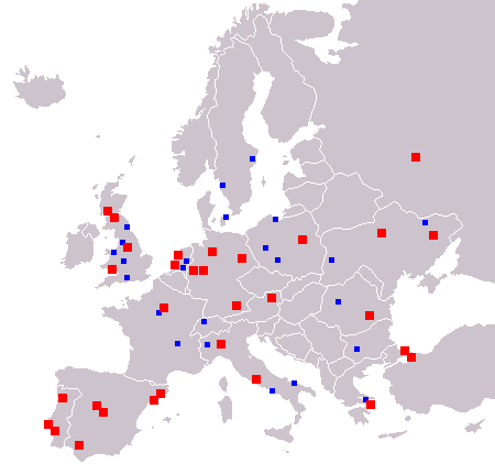 UEFA 5- and 4-Star Stadia